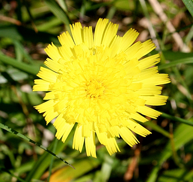 Mouse-Ear Hawkweed (Pilosella officinarum) This hawkweed is distinguished from other hawkweeds because its flowers are lemon-yellow, paler than other species. It prefers short dry grass, and grows profusely on the south-facing slopes below Auchindoun Castle.